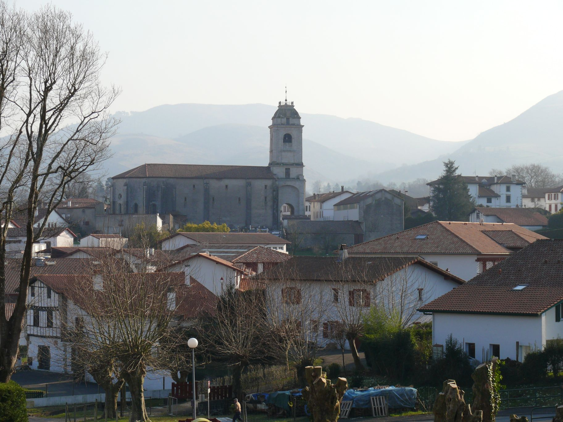 Saint-Vincent's church of Urrugne (Pyrénées-Atlantiques, Aquitaine, France).